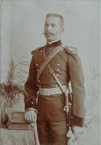 Senior leutenant Ivan Mechkuevski between 1897 and 1904 with artillery uniform.